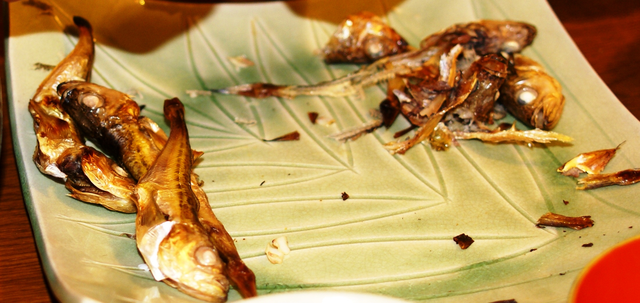 dried fish of Hatahata(Arctoscopus japonicus)